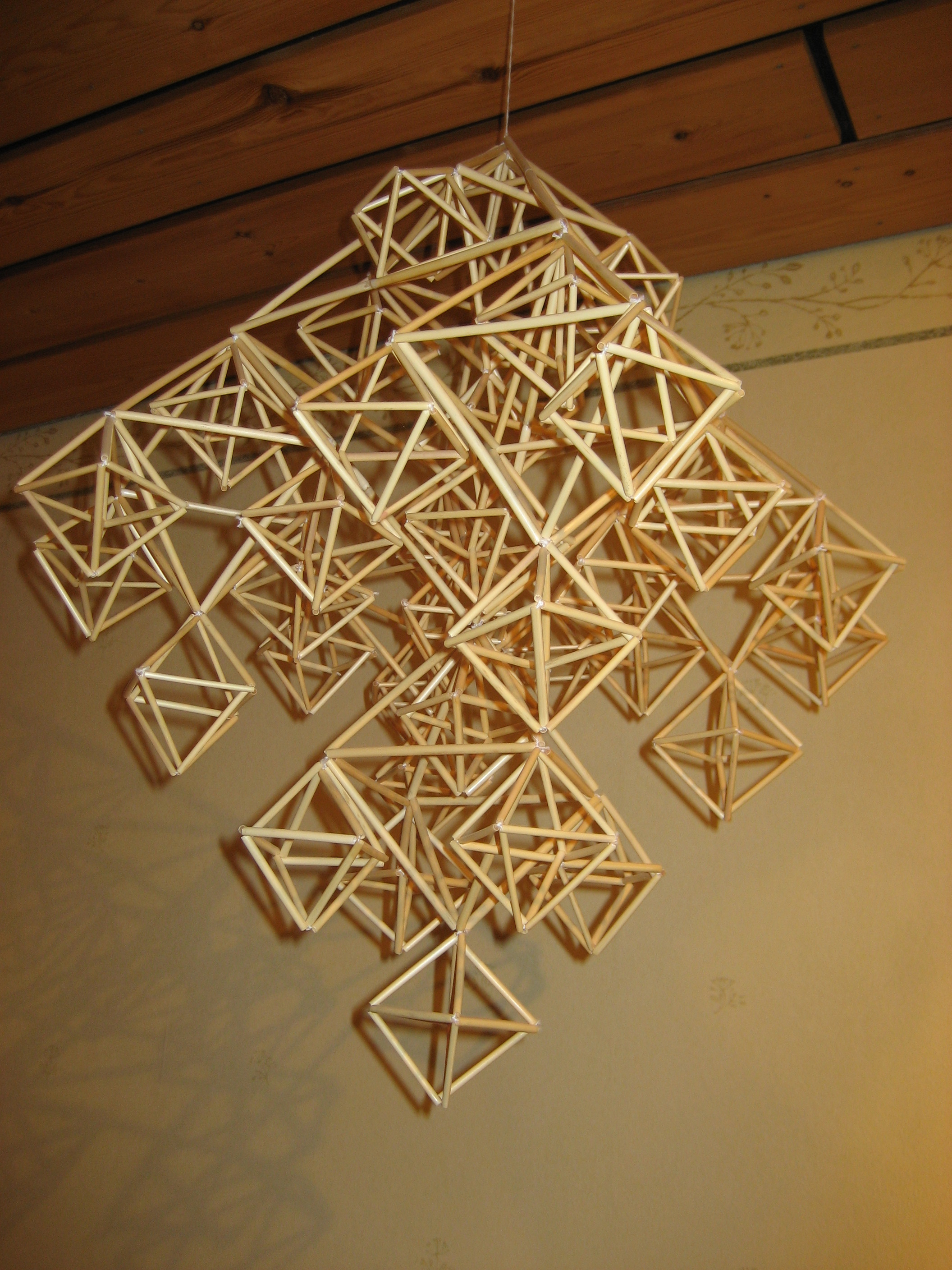 Olkihimmeli or simply himmeli is a traditional Finnish Christmas decoration made of straw.